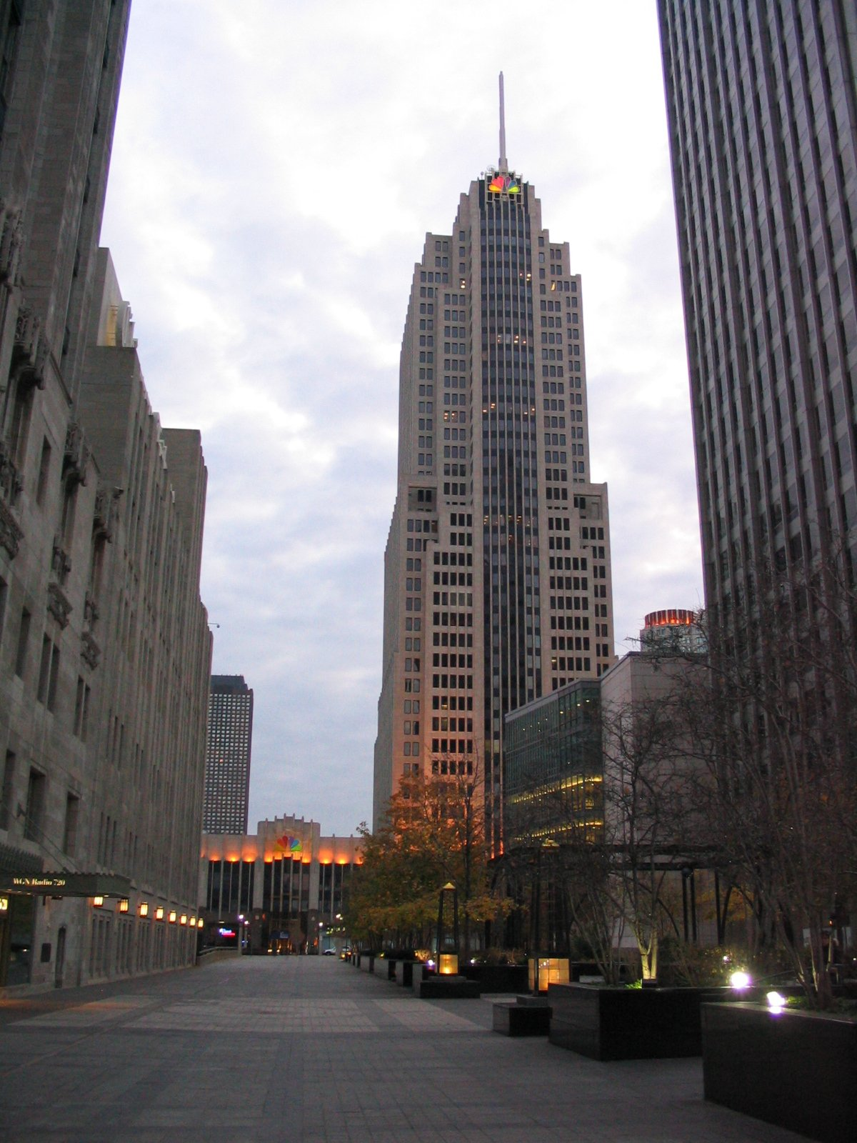 NBC Chicago, Illinois